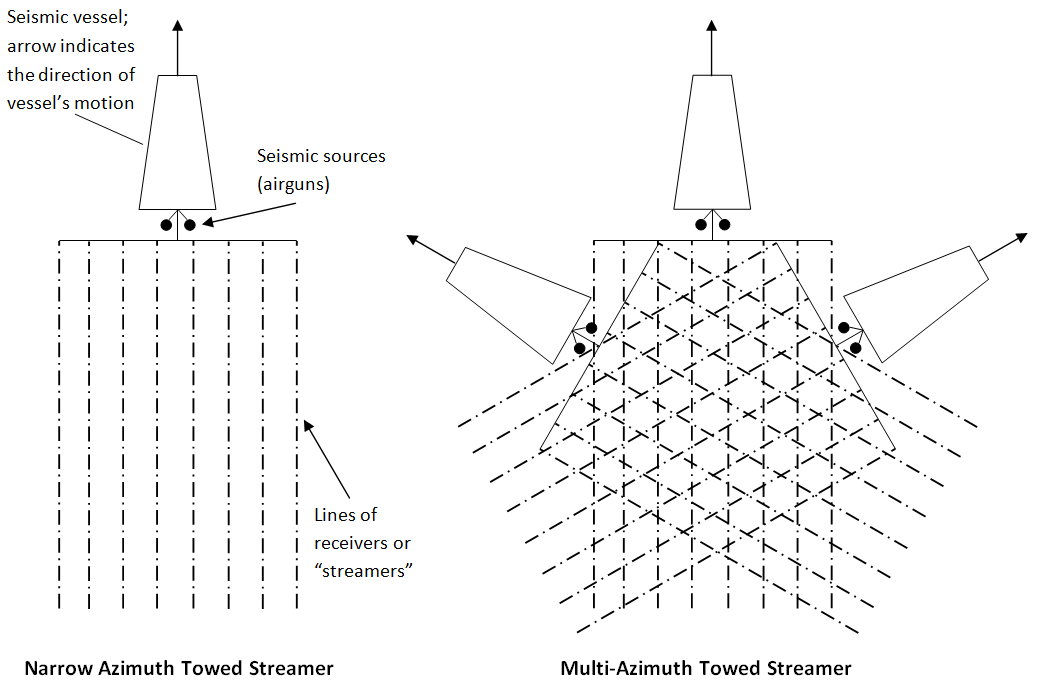 Diagram shows the layout of Narrow Azimuth Towed Streamer (NATS) and 3-azimuth Multi-Azimuth Towed Streamer (MAZ) marine seismic surveys from a plan view. It can be seen that a MAZ survey is made up of multiple NATS surveys at different orientations.